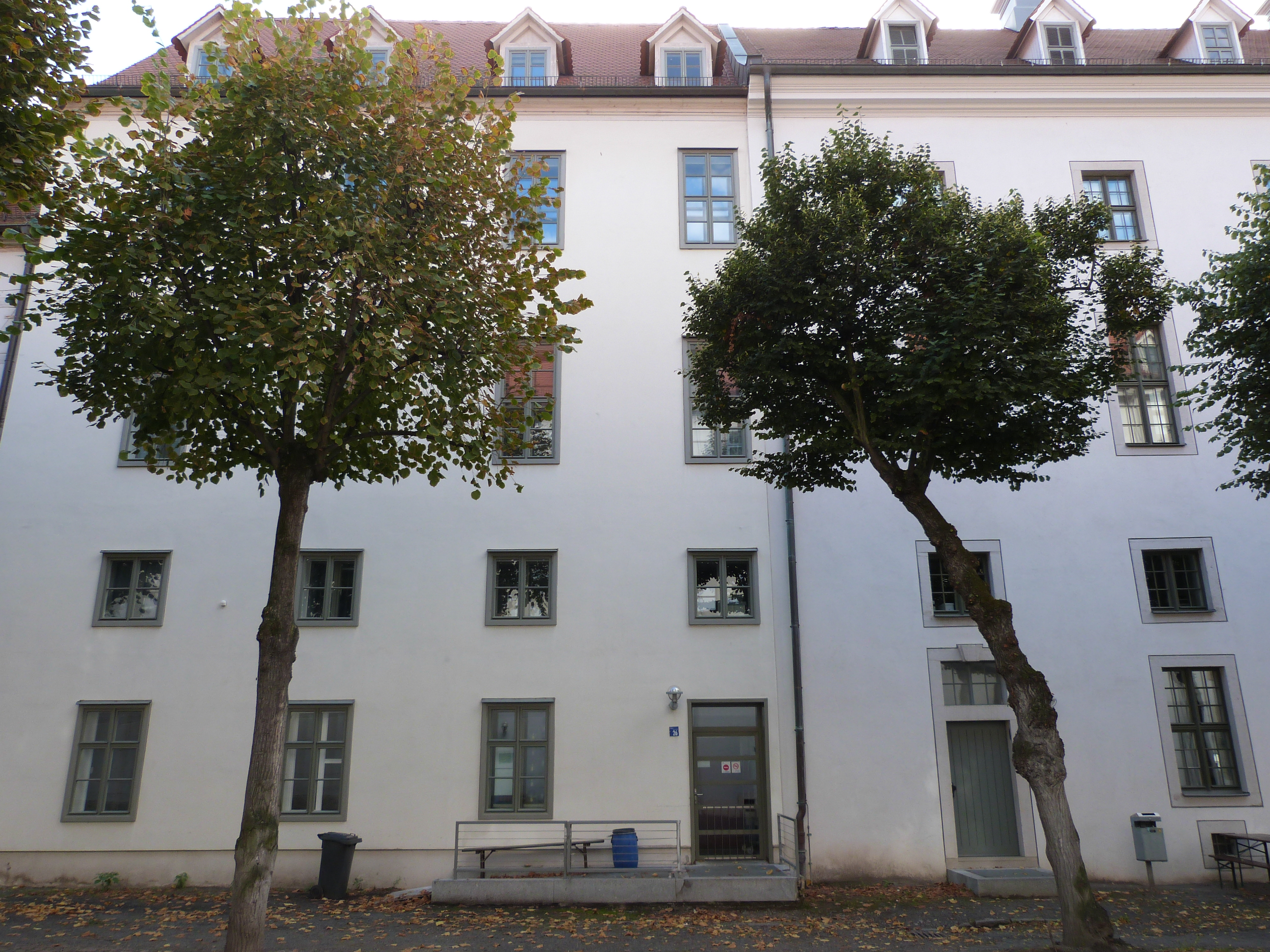 House 26, former "English house", (for the english students), backside, Francke foundations in Halle (Saale), today Seniors college of the University Halle